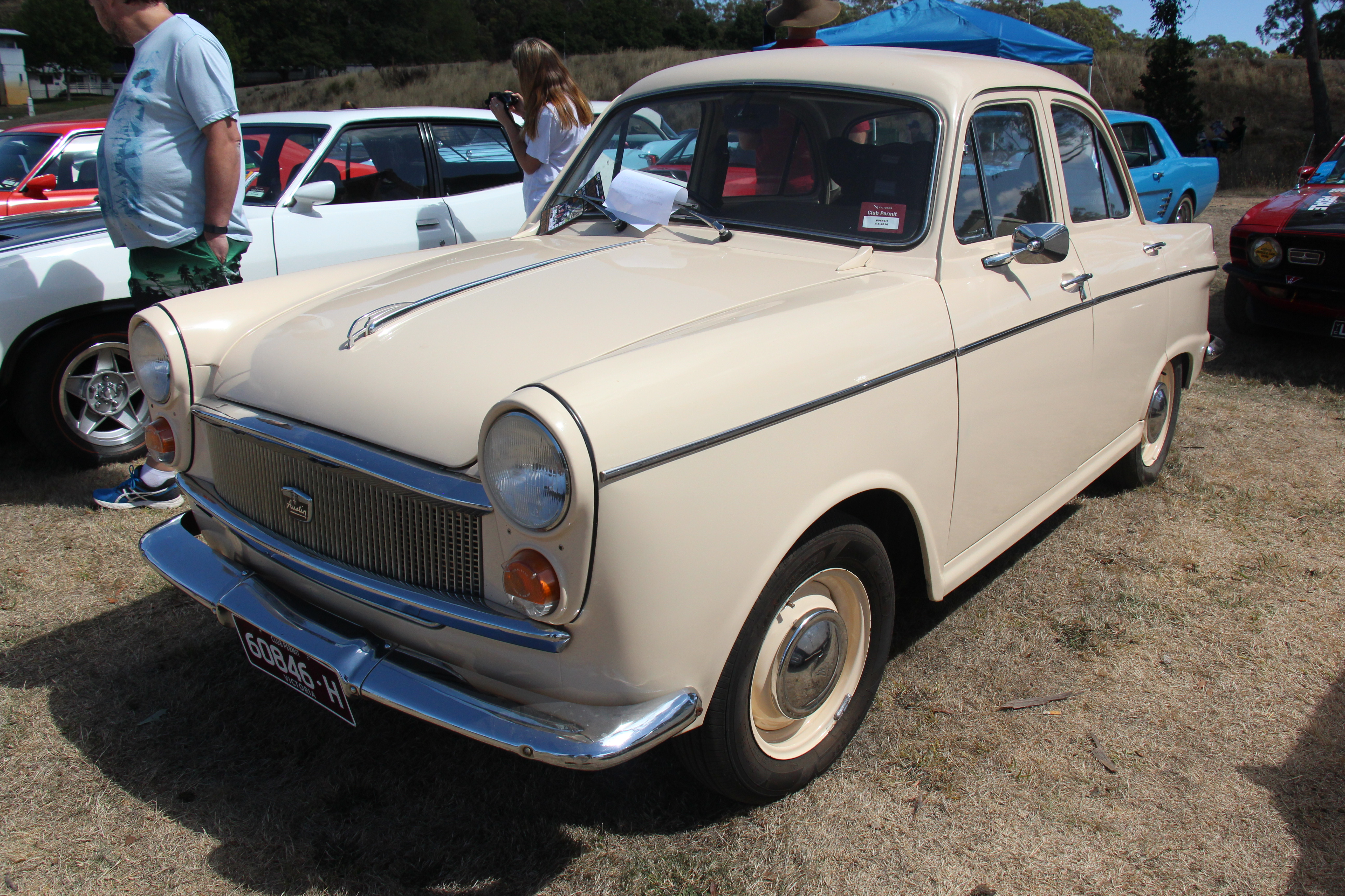 In 1954 the Austin Motor Company of Australia and Nuffield Australia merged to form British Motor Corporation (Australia) The 1958-62 Austin Lancer and similar Wolseley 1500 and Morris Major, were the 1st cars built by BMC of Australia. The 1958-59 Series I was a more basic version of the English Wolselely 1500 and Riley 1.5. All 4 cars had the 1489cc B engine. The 1959-62 Series II varied more from the English cars with tailfins and new front sheet metal, they were 9 inches longer, running gear strengthened for Australian conditions. In 1962, the Morris got a facelift, now called the Major Elite, it was built until 1964. (the Austin and Wolseley discontinued)